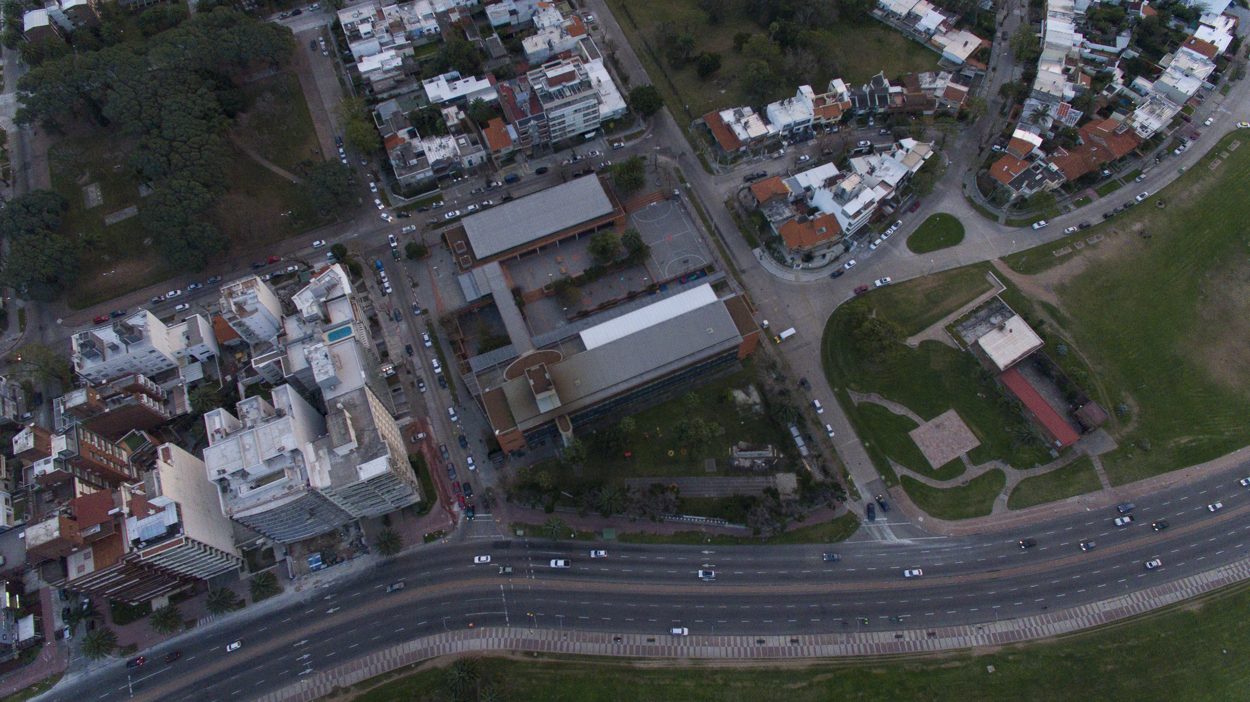 Lycée Français de Montevideo aerial view, Montevideo, Uruguay